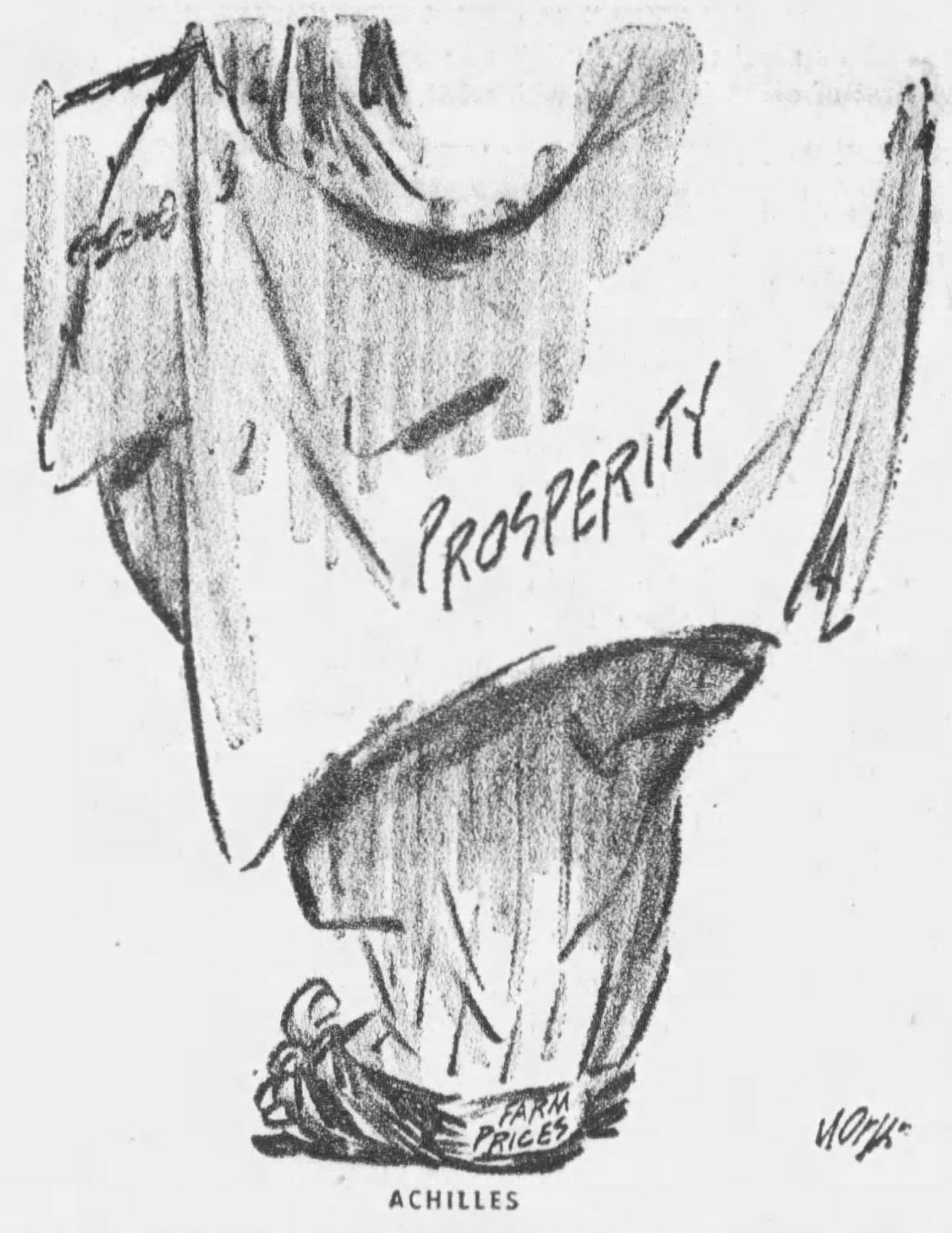 "Achilles", an editorial cartoon commenting on price supports for U.S. farmers. Winner of the 1956 Pulitzer Prize for Editorial Cartooning.